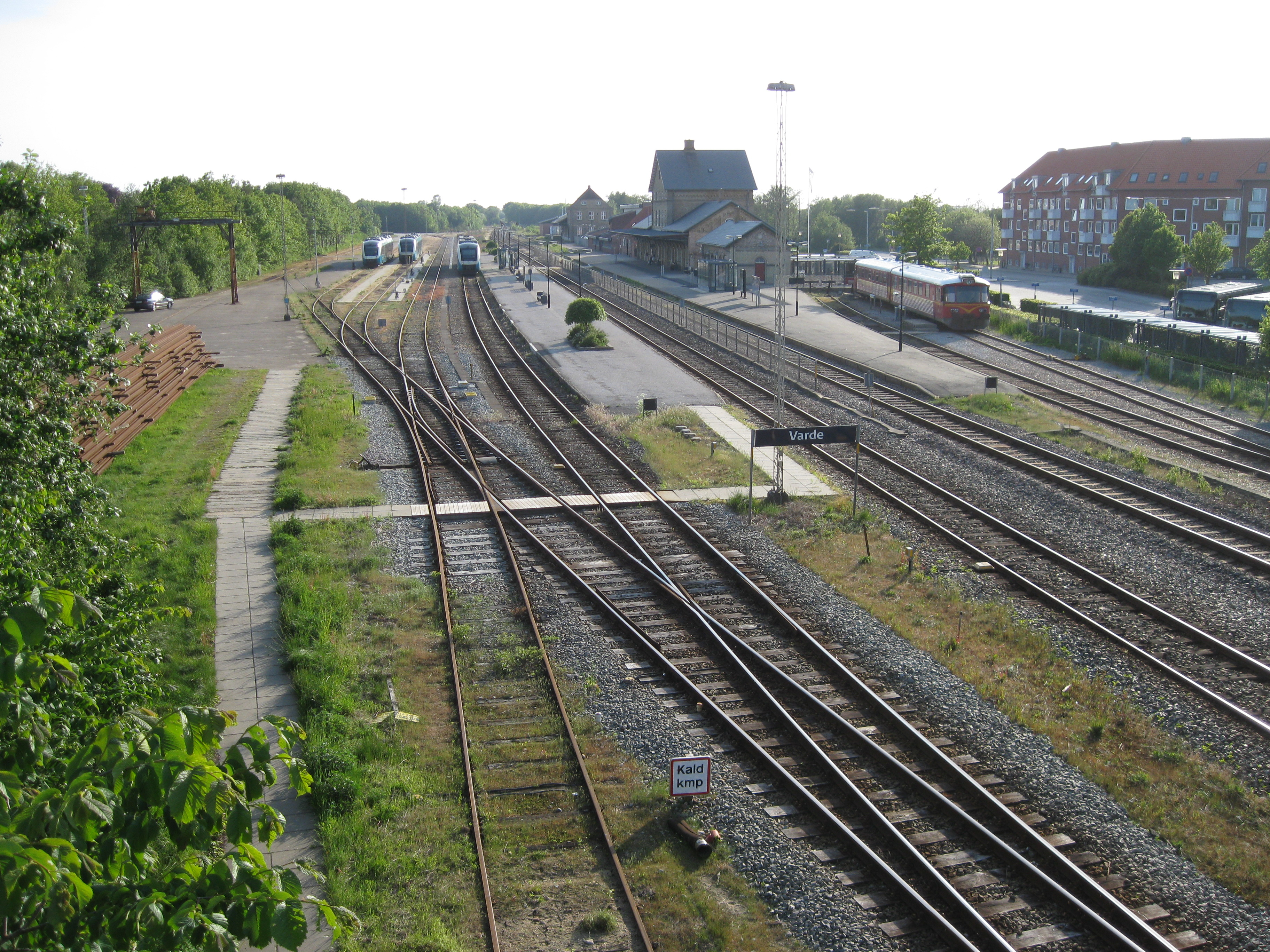 Varde railway station, Denmark